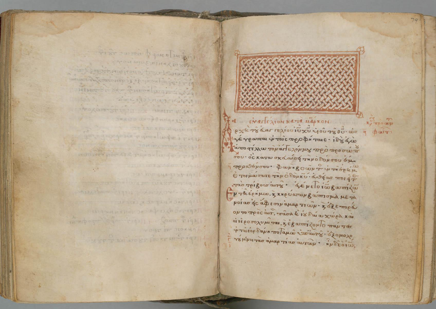 beginning of the Gospel of Mark